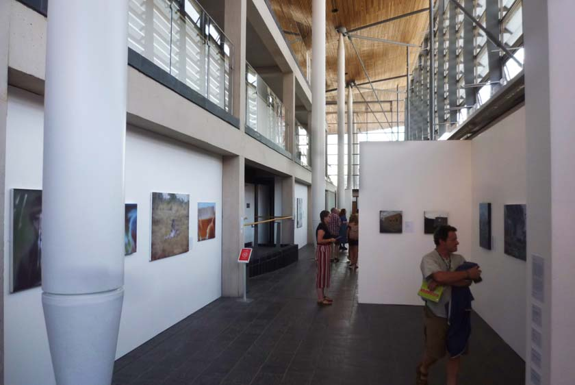 In August 2018 the National Eisteddfod's annual exhibition of Welsh art, craft and architecture was held in the Welsh Government Senedd building in Cardiff Bay, with painting, sculpture and audio-visual art in the basement level